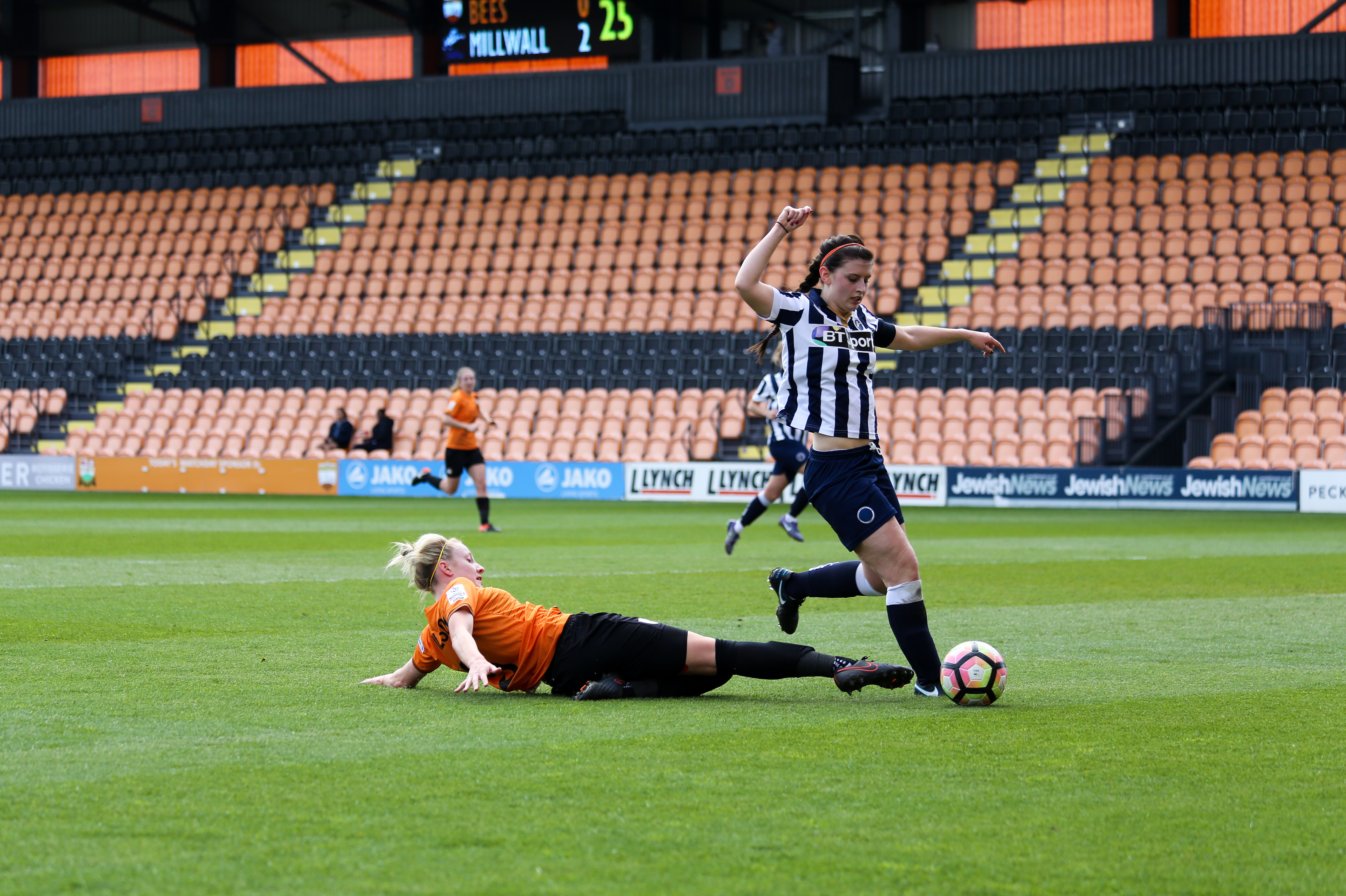 Jo Wilson and Jordan Butler chasing the ball during London Bees v Millwall Lionesses on 15 April 2017.